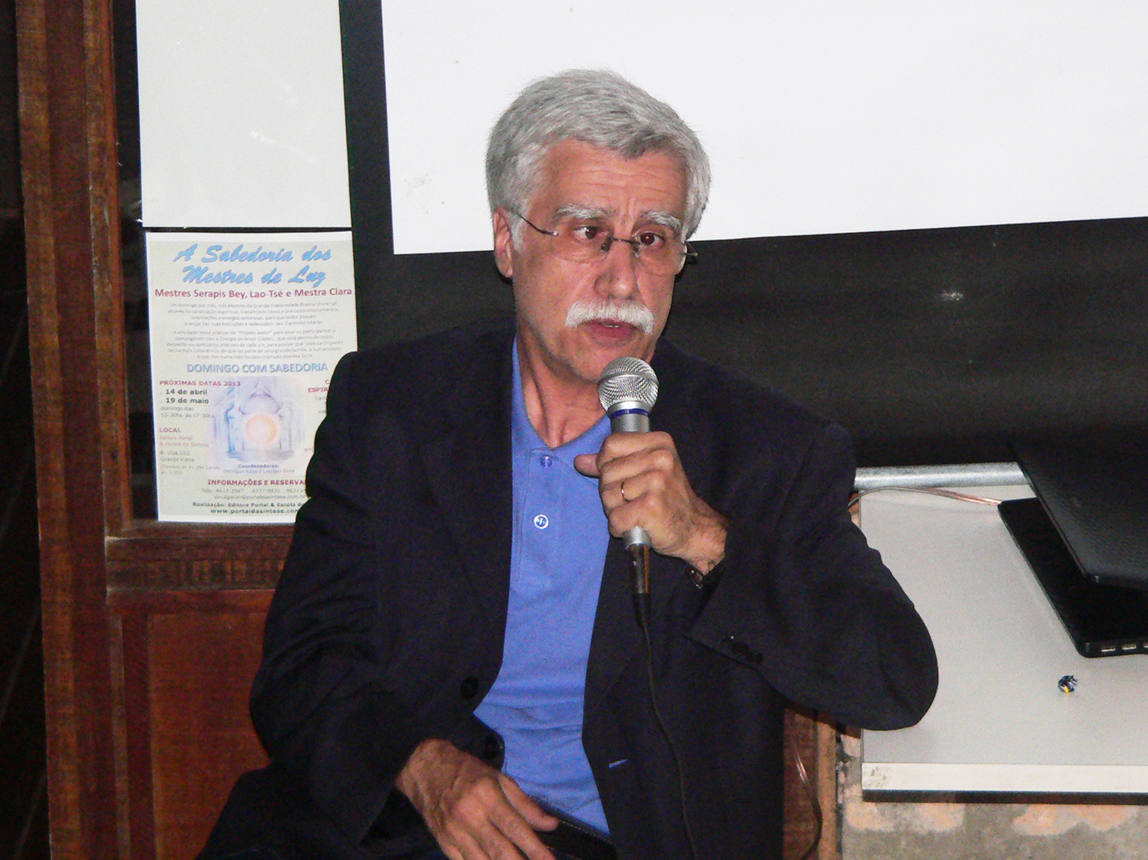 Portuguese educator José Francisco Pacheco conducting a lecture in a restaurant of Cotia, Brazil.